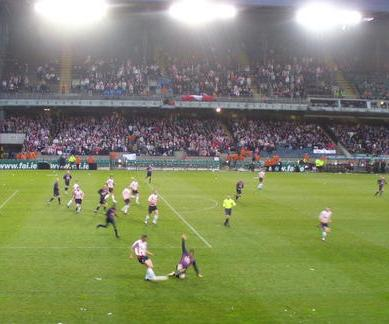 Personal photo from FAI Cup final 2006. Cropped and re-sized.